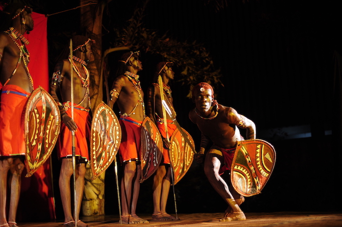 Anuang'a & Maasai Vocal group